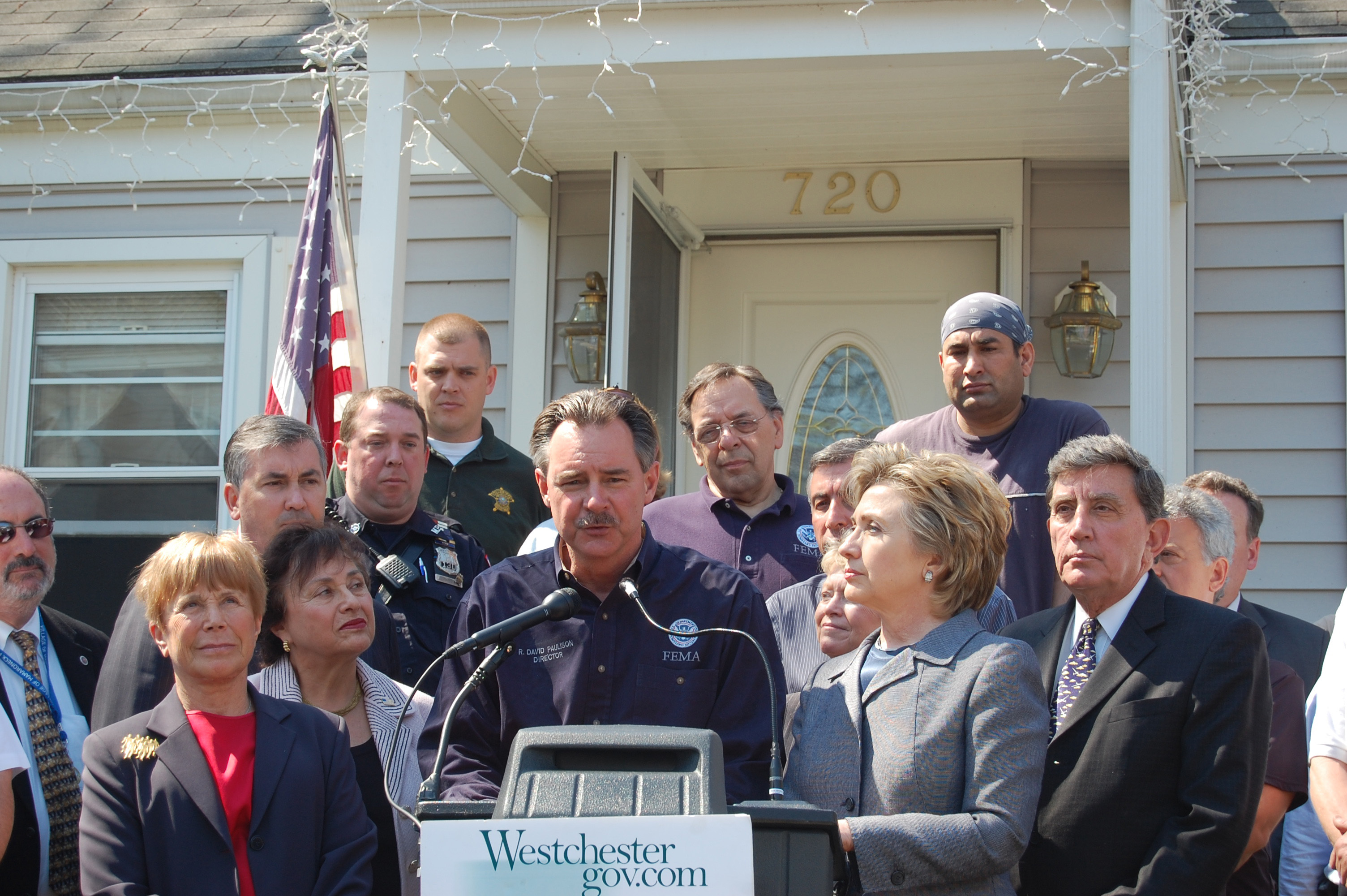 Mamaroneck, NY, April 23, 2007 -- U.S. Department of Homeland Security's Federal Emergency Management Agency (FEMA) Administrator R. David Paulison (at microphones), Regional Administrator Stephen Kempf Jr. (background right), US Senator, Hillary Rodham Clinton (D-NY) (at Paulison's right), Representative Nita M. Lowey (D-NY) (at Paulison's left) and local leaders at a press conference after New York flooding. FEMA/Kim Anderson